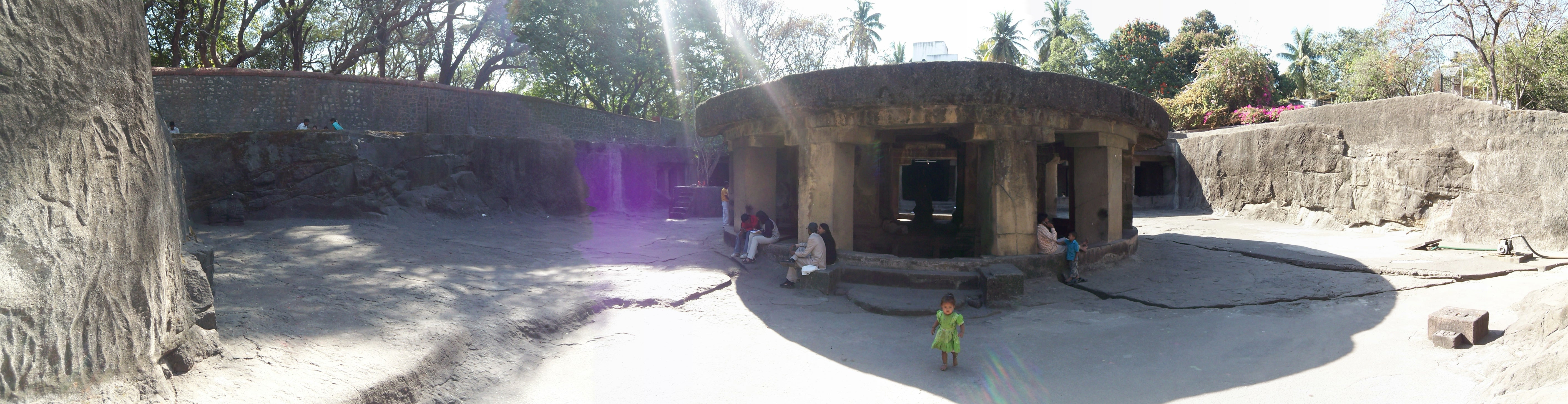 Pataleshwar cave is an example of Rock cut architecture. Located in the city of Pune in the Maharashtra state of India